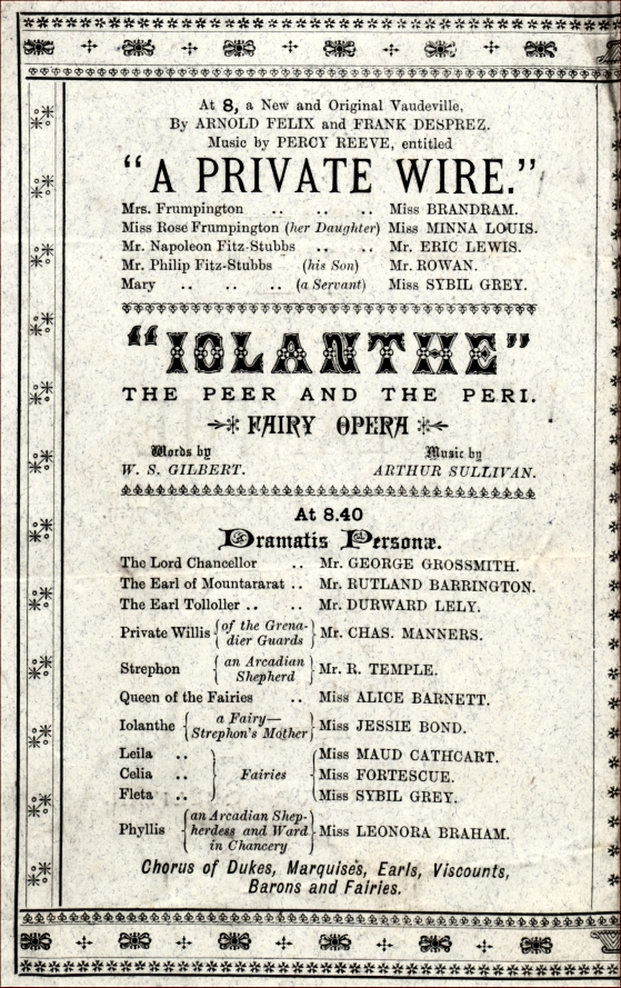 Savoy Theatre programme, April 1883, for A Private Wire and Iolanthe. Public domain.